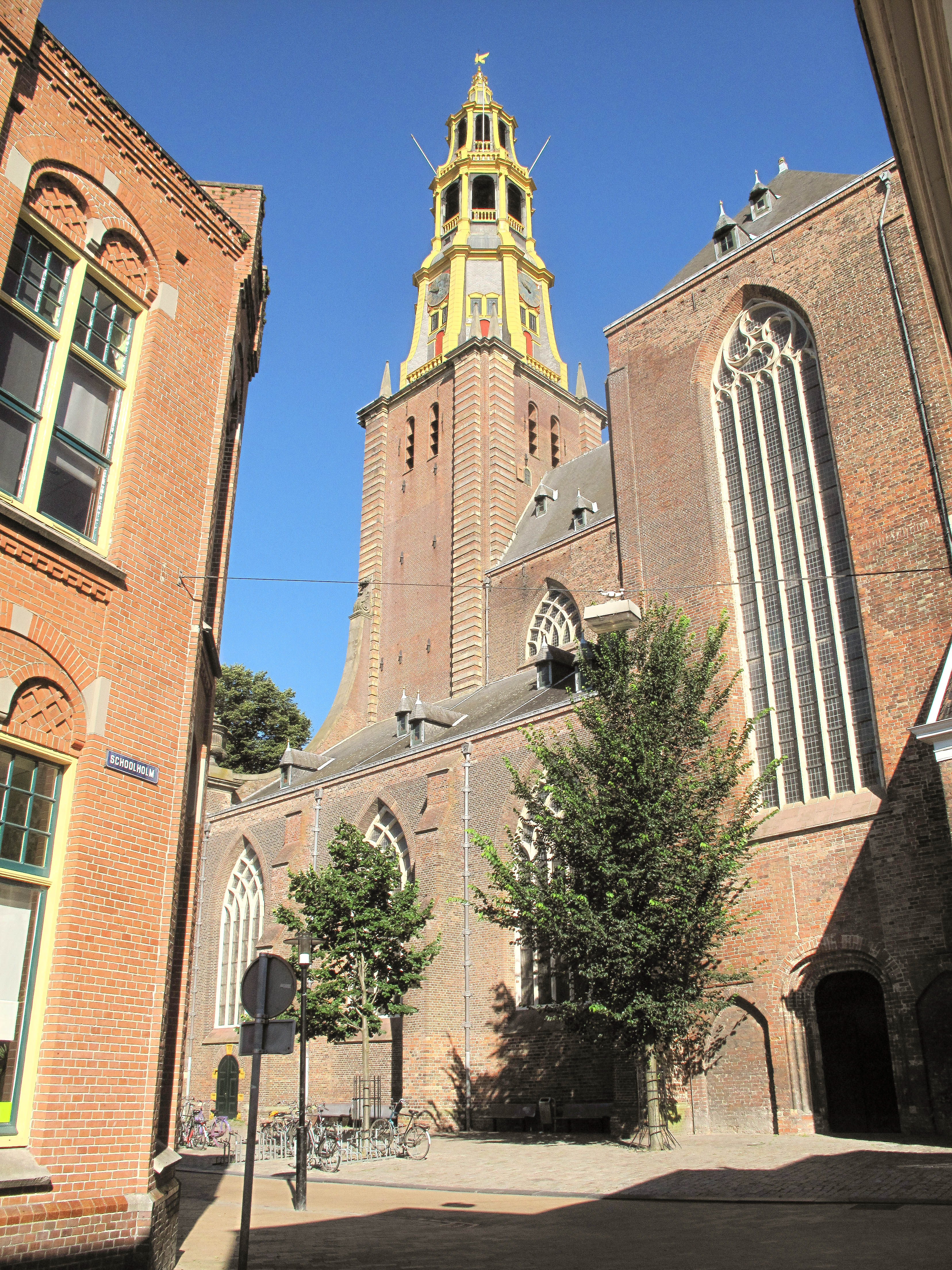 Groningen, church tower: de Aakerk